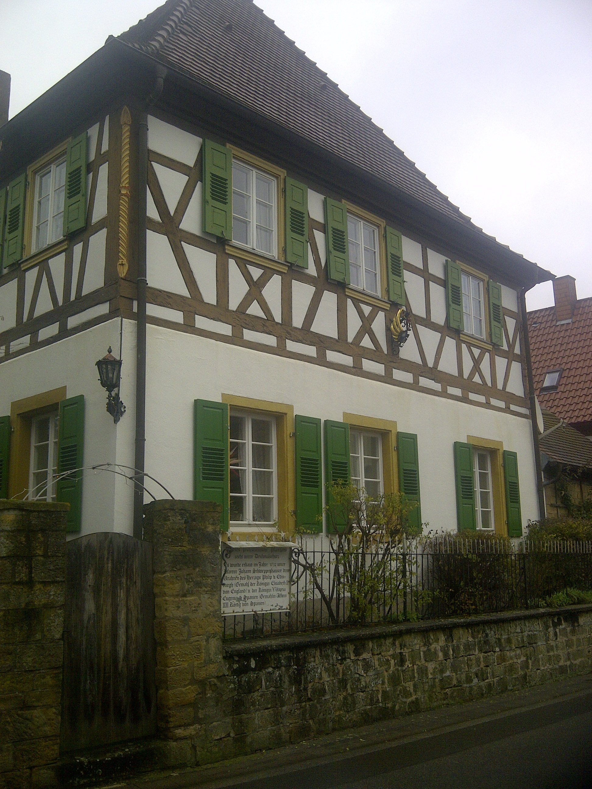 Oberotterbach, Germany, former residence of protestant minister (1732)